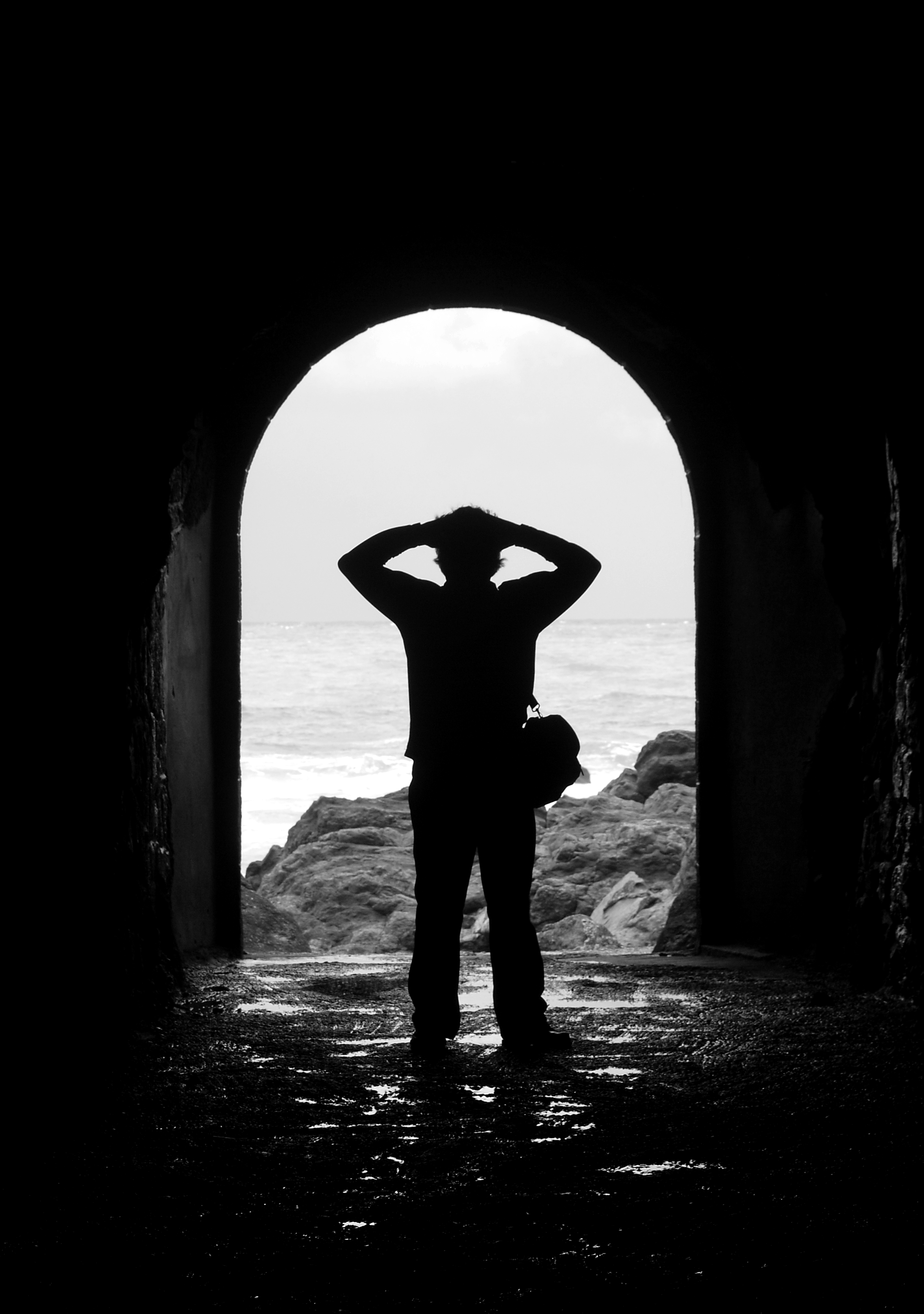 An example of the contre-jour photographic technique. Taken in S. Martinho do Porto, west coast of Portugal